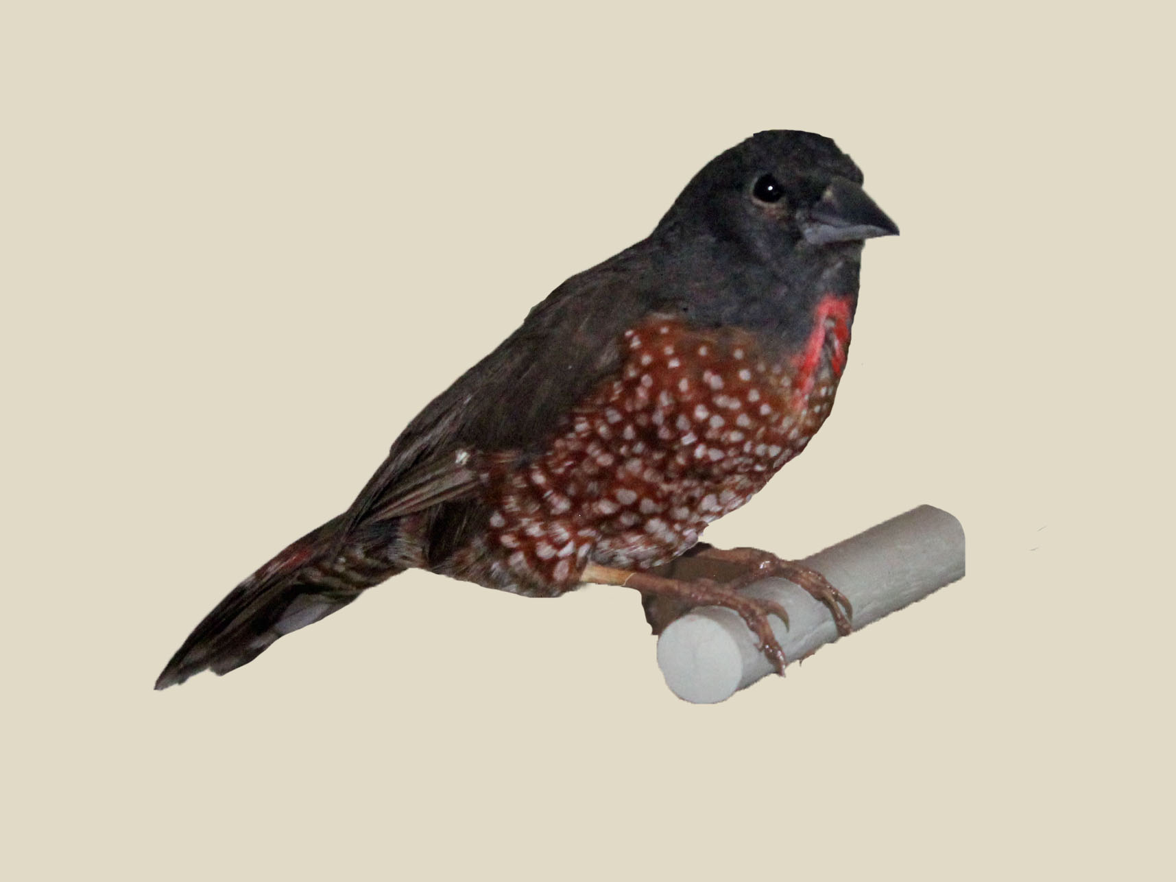 Brown Twinspot (Clytospiza monteiri). Photograph of a specimen at Nairobi National Museum in Nairobi, Kenya.